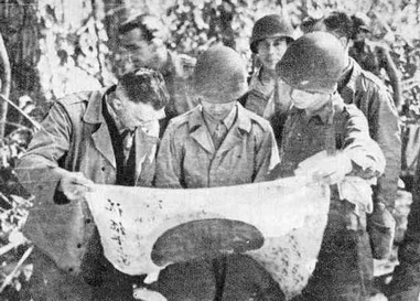 GENERAL STILWELL ON AN INSPECTION TOUR STUDYING A RECENTLY CAPTURED Japanese FLAG